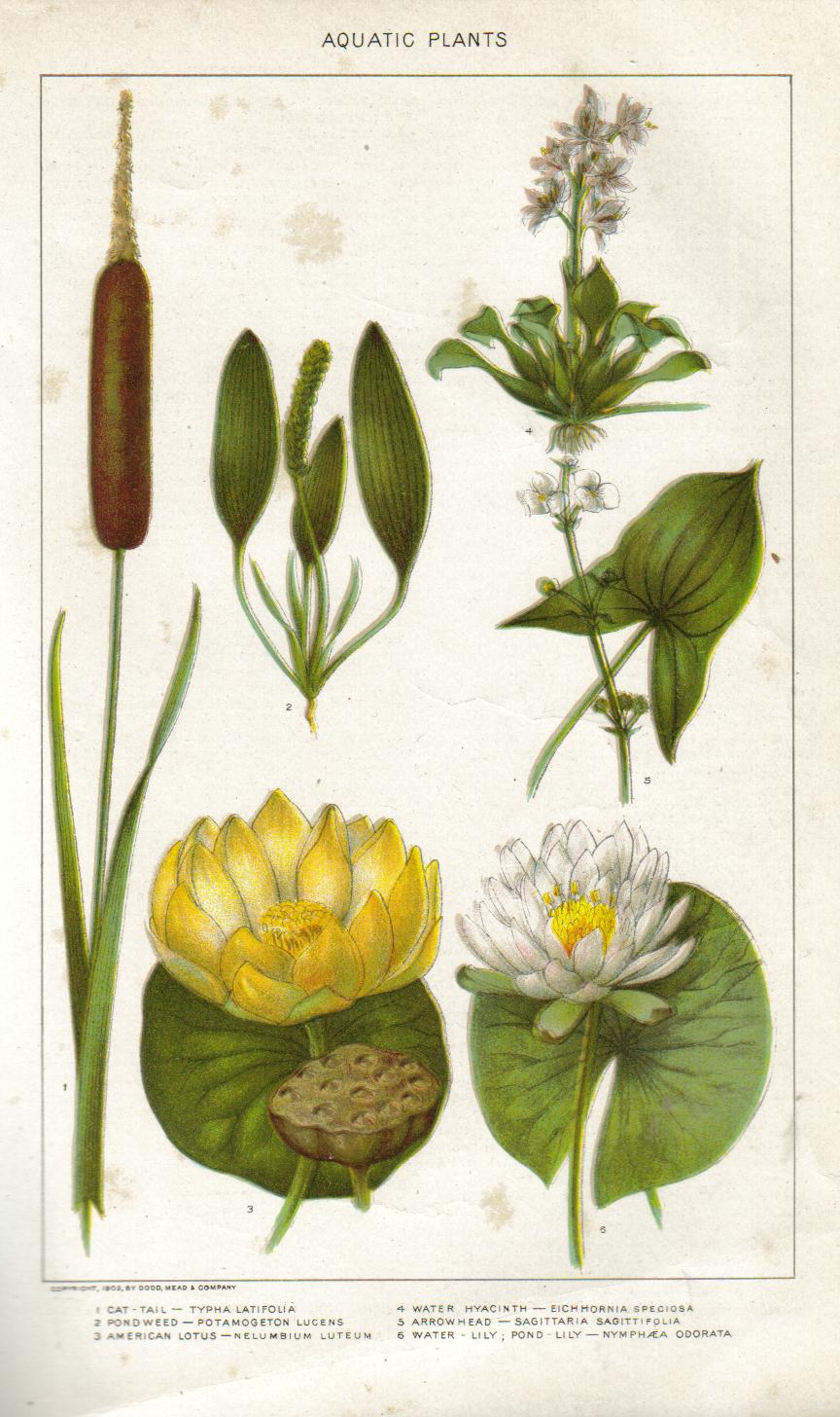 1902 painting of the Aquatic plants, from New International Encyclopedia